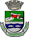 Coat of arms of the city of Tramandaí, Rio Grande do Sul, Brazil.